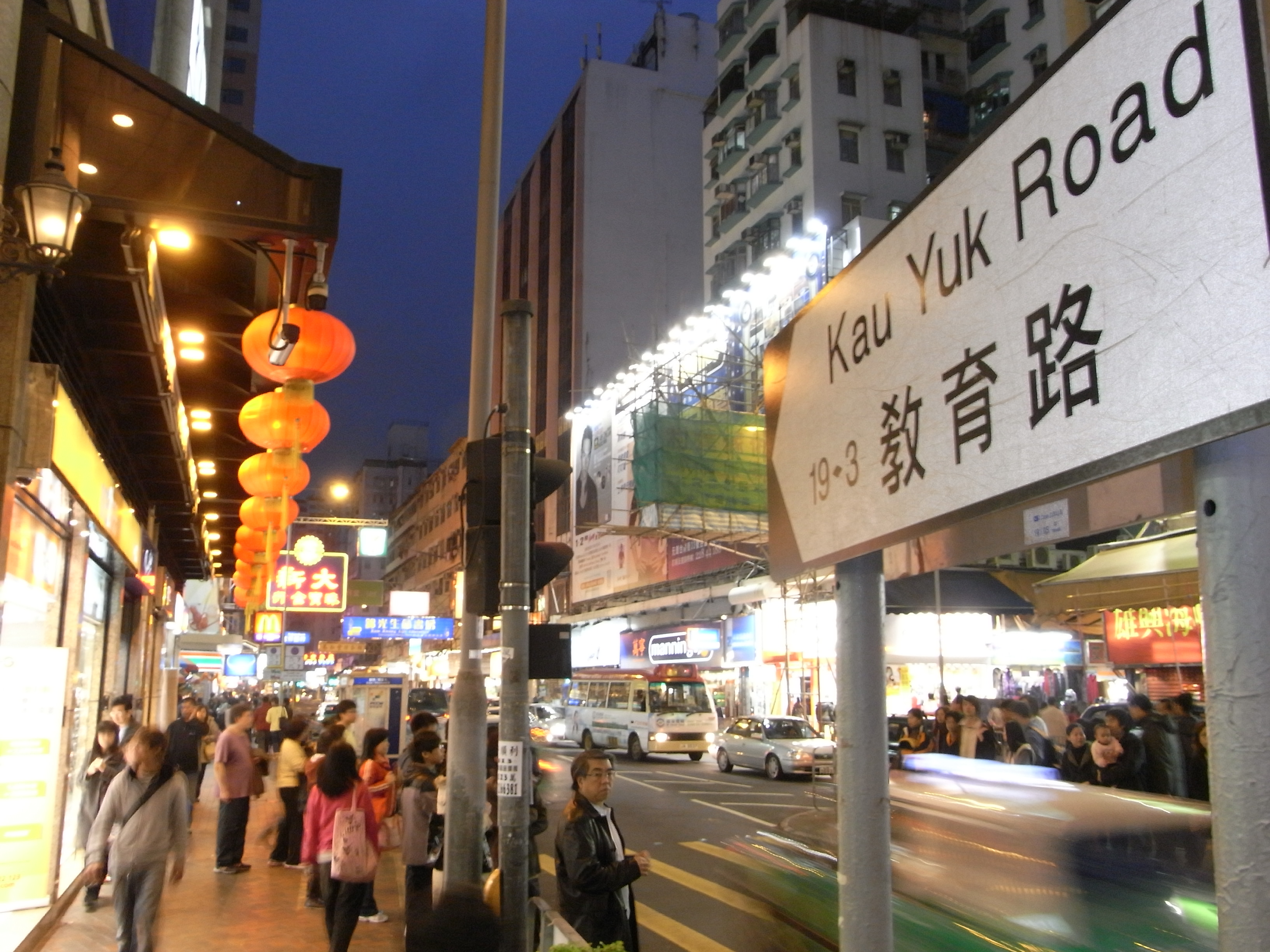 元朗 教育路